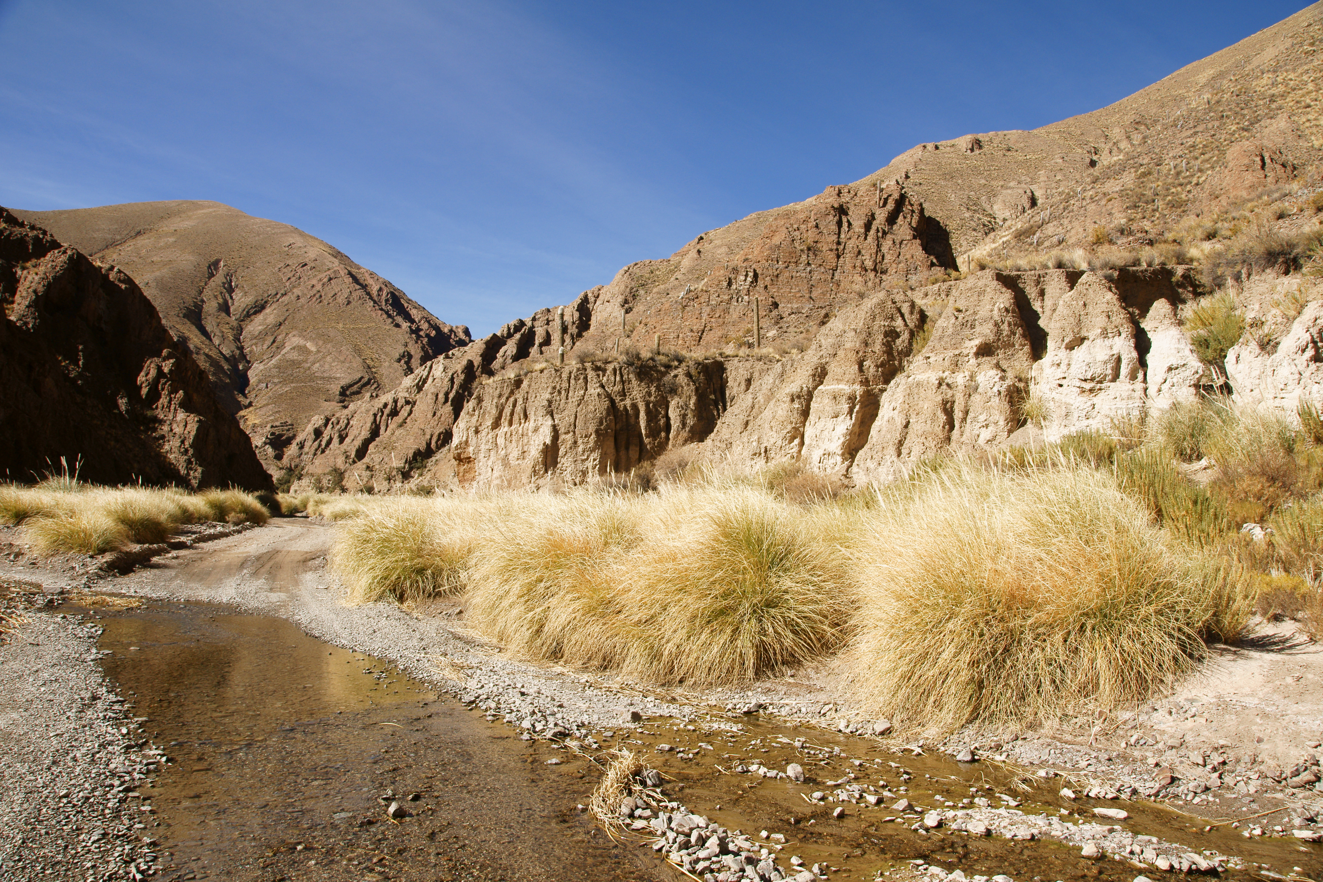 The National Route 40 passing through the Cañadón de Oros (Jujuy)